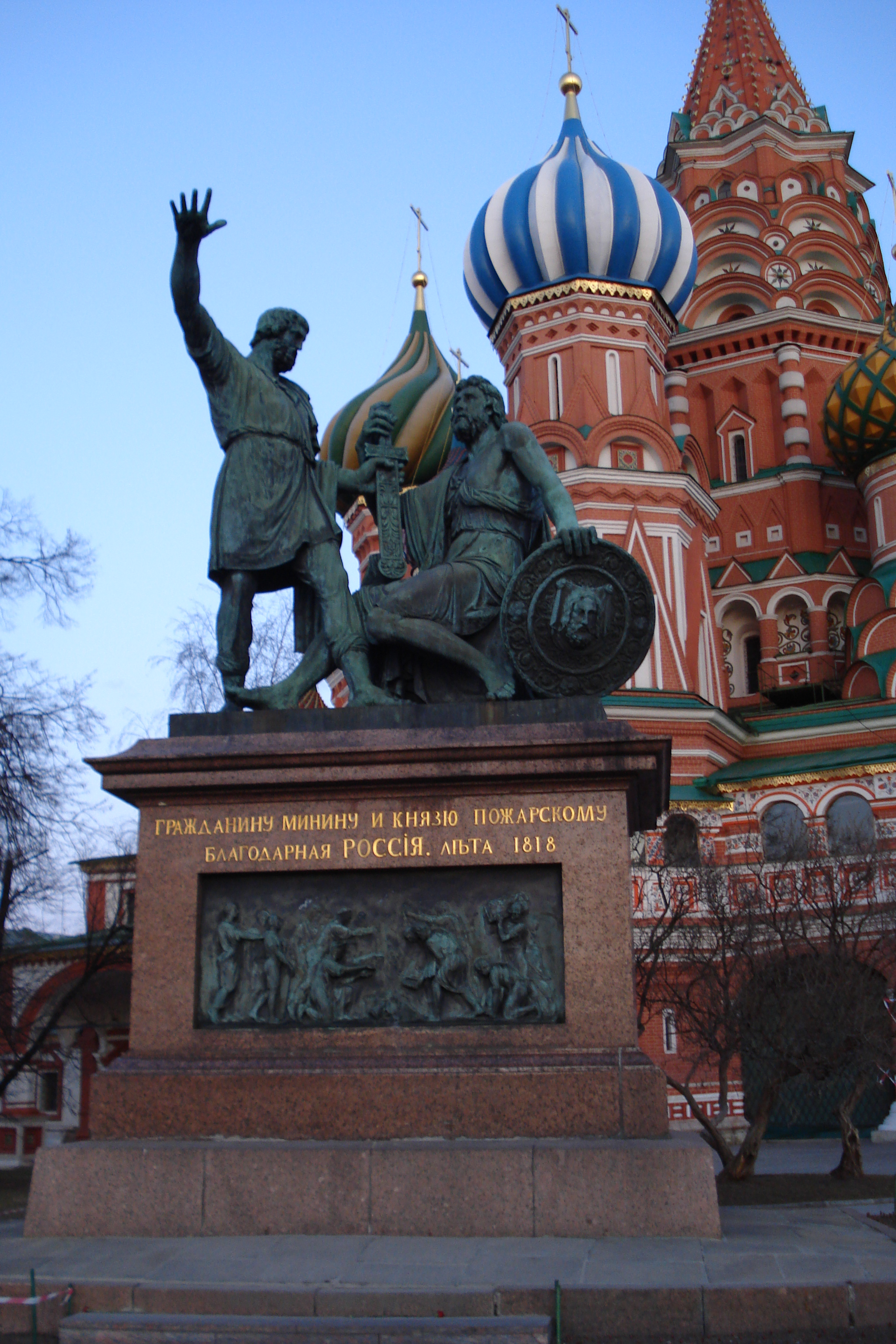 Monument to Minin and Pozharsky with the Cathedral in background